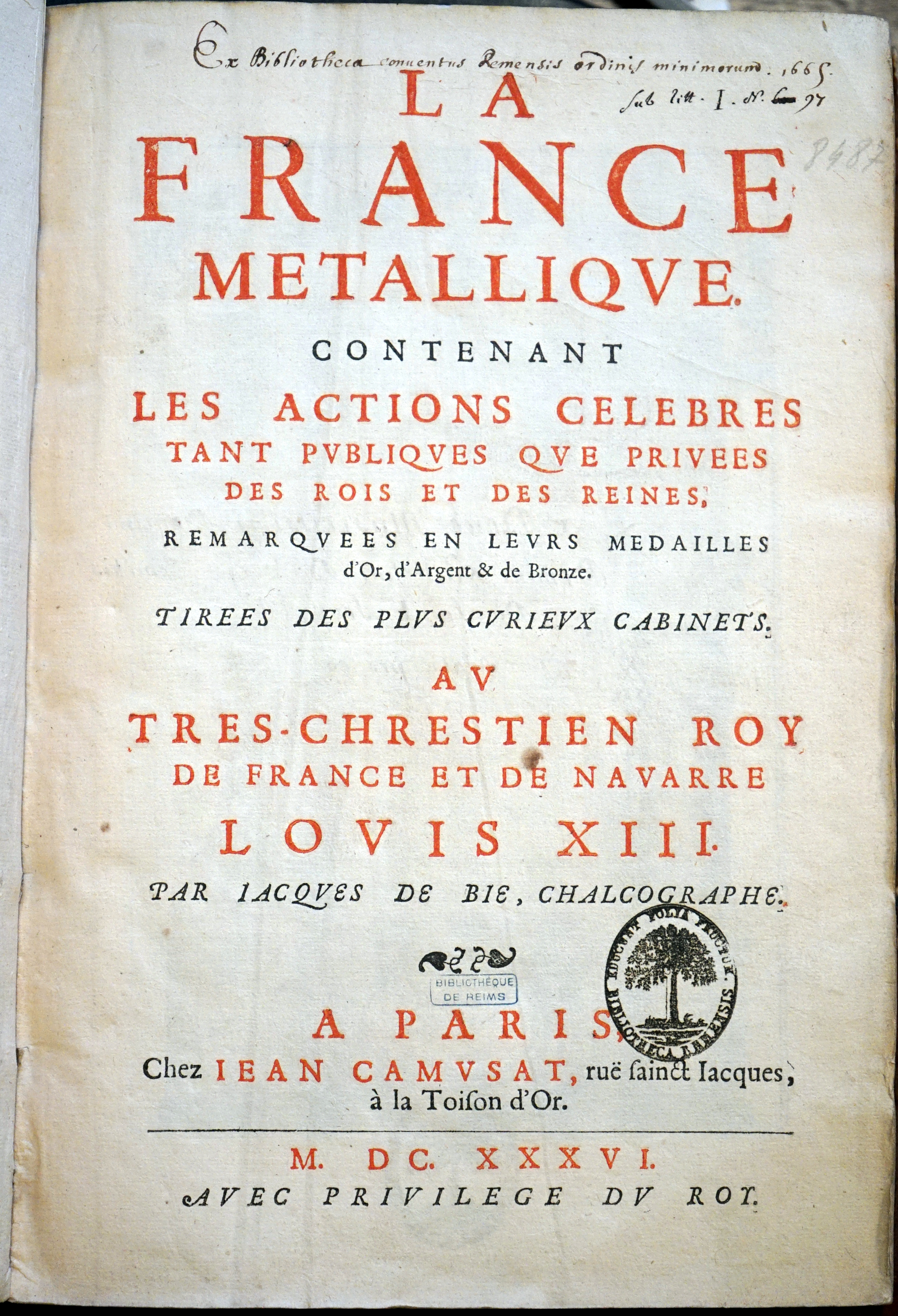 Title page of Jacques de Bie, "La France métallique"